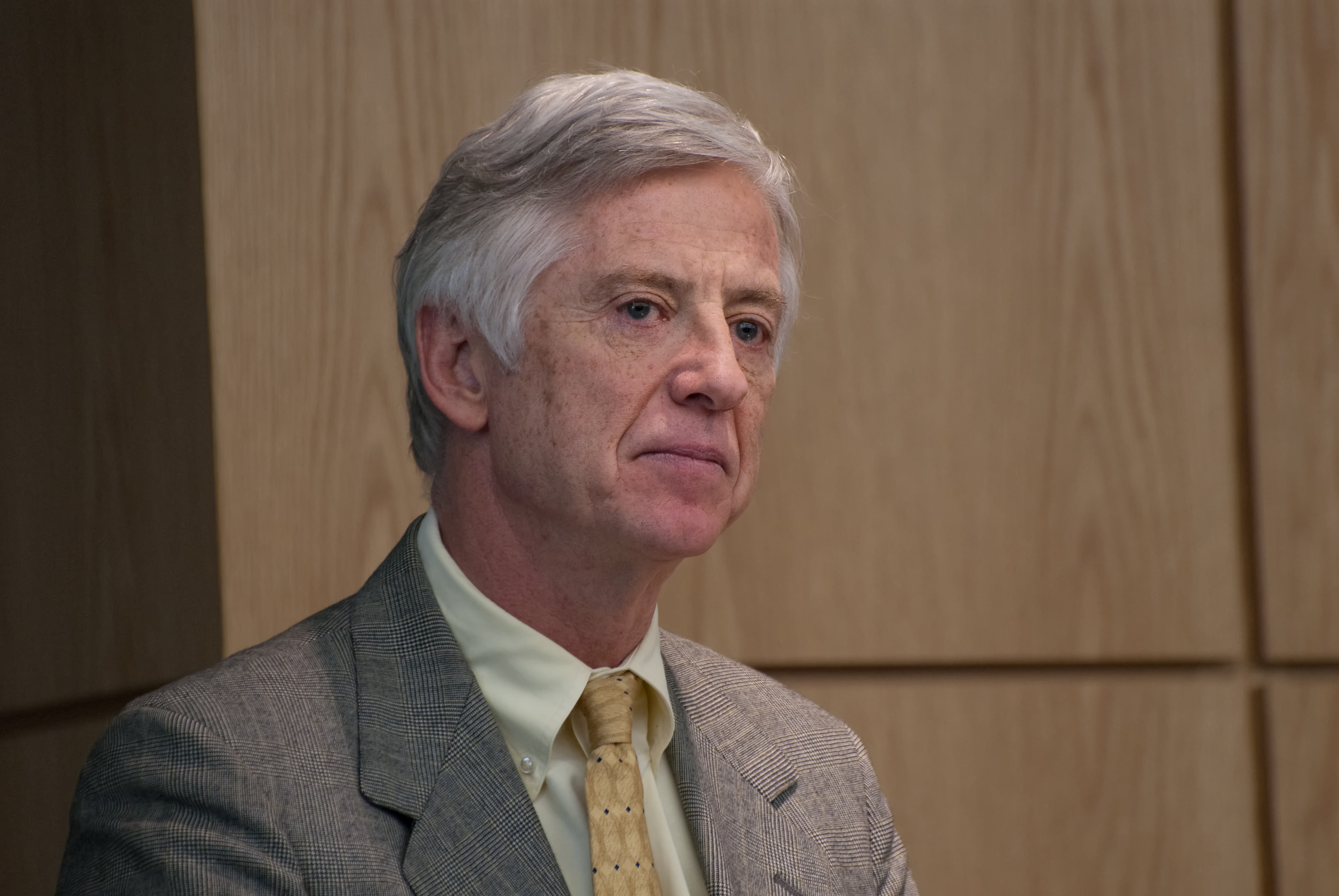 Former SLC Mayor and Human Rights activist Rocky Anderson speaking at UVU's 15th annual MLK Commemoration.